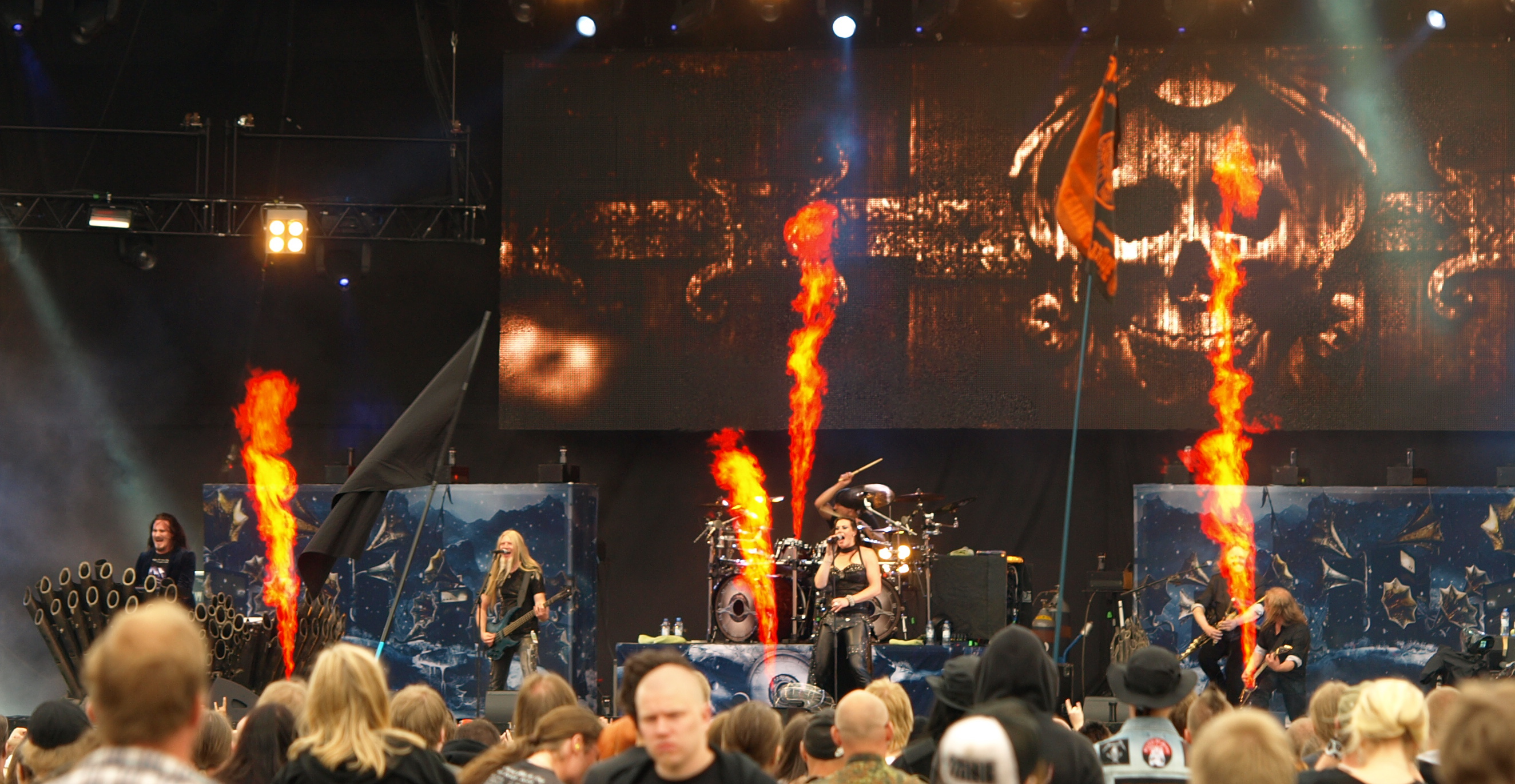 Finnish band Nightwish at Tuska Open Air 2013